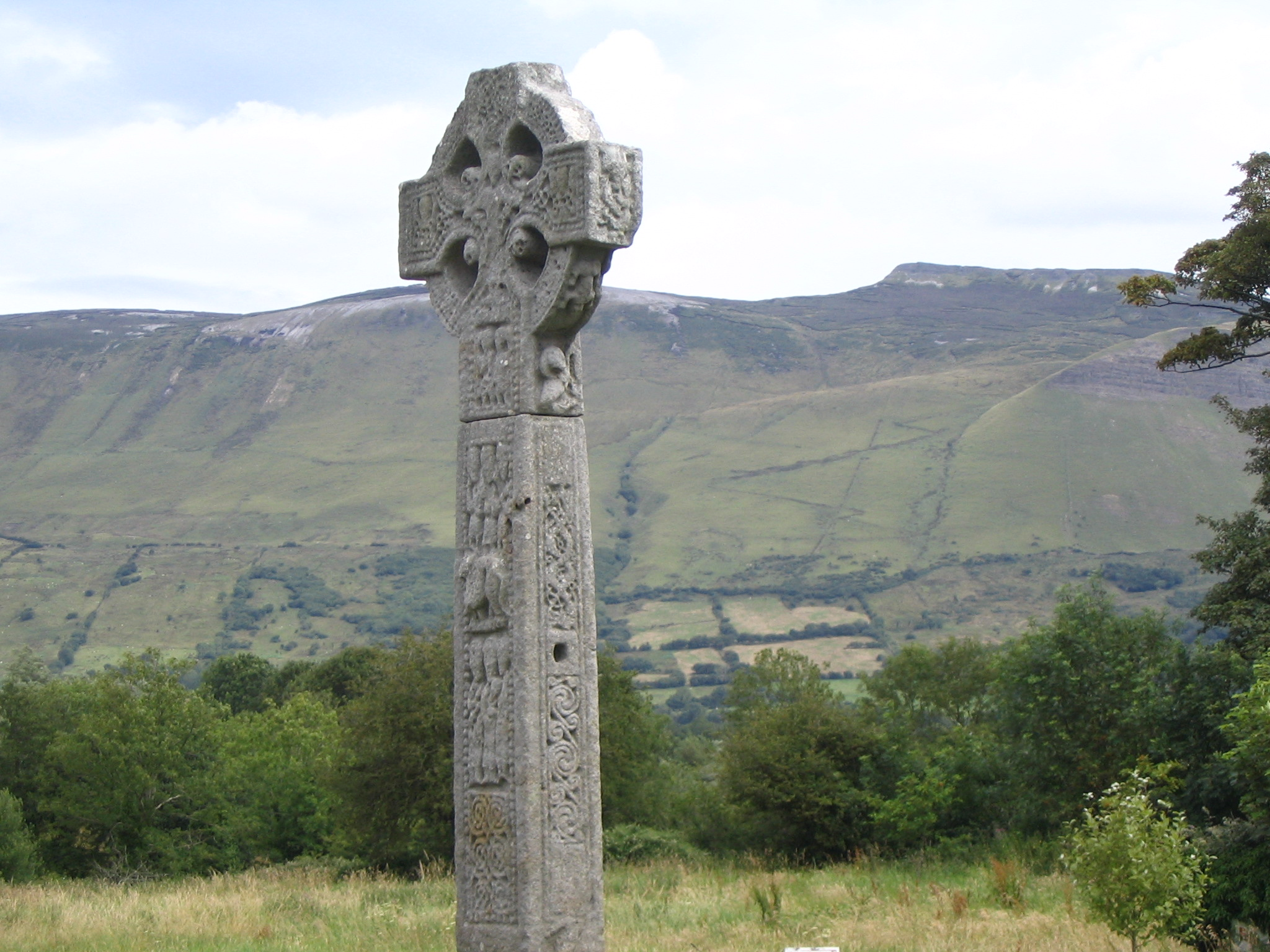 Drumcliff high cross and Benbulben